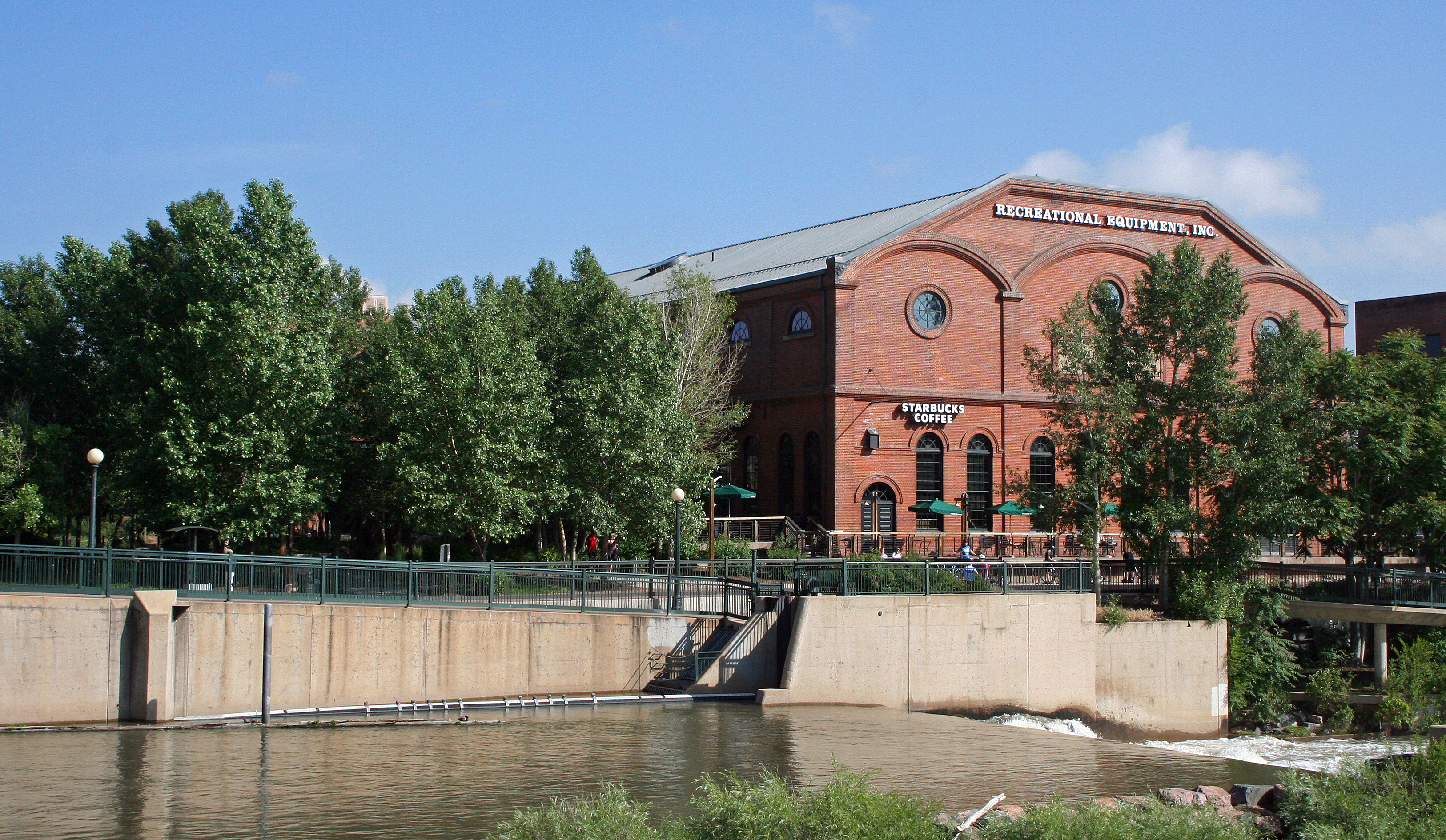 REI and Starbuck which are located in the old Denver Tramway Powerhouse building in Denver, Colorado. After its original use, the building became a warehouse for International Harvester before becoming the home of the Forney Transportation Museum.